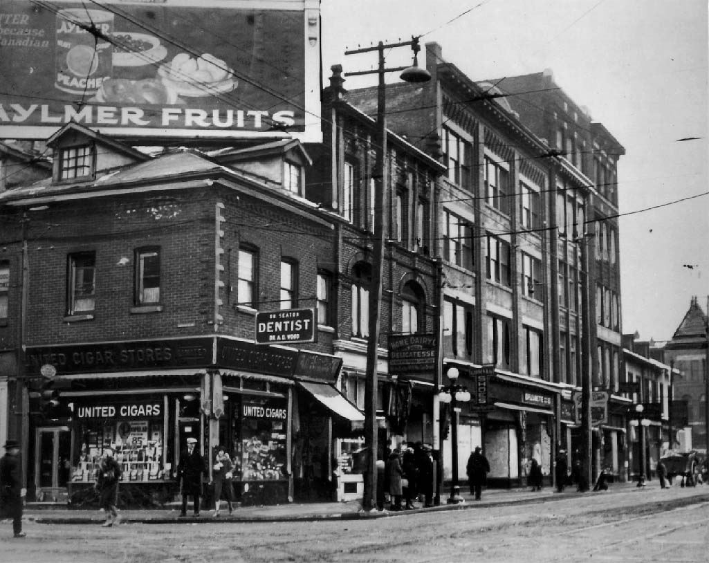 North West Corner of Yonge and Dundas, Toronto, Ontario, Canada